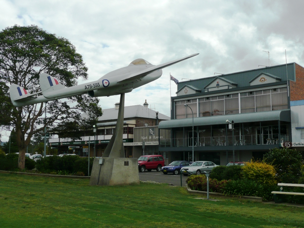 A de Havilland Vampire opposite the Wingham Returned and Services League